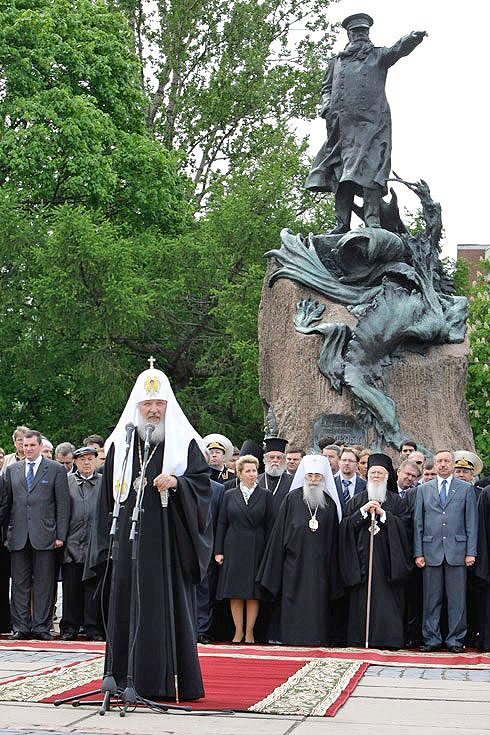 Patriarch Kirill, patriarch Bartholomew and metropolitan Vladimir watch the Baltic Fleet parade. Kronstadt, May 2010